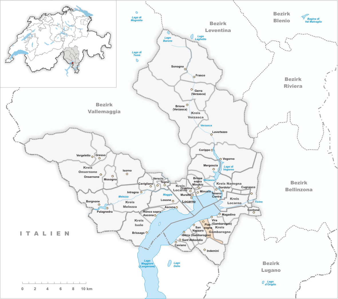 Municipality Piazzogna